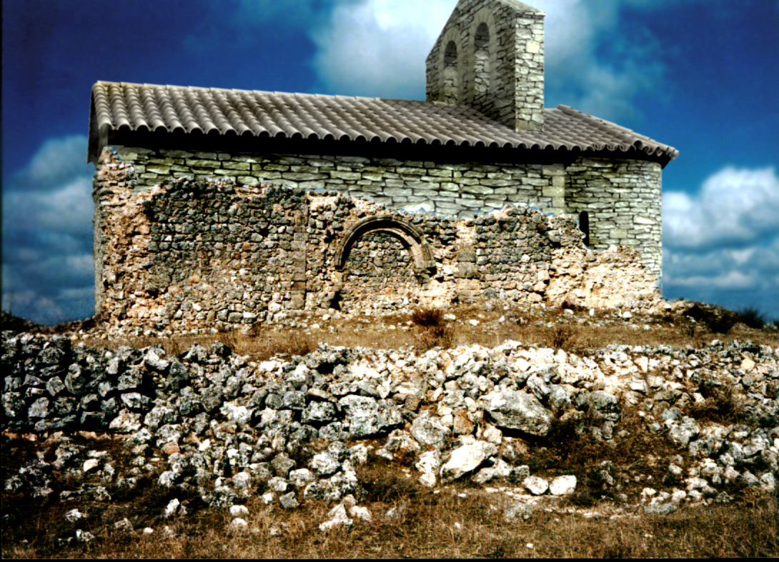 Virtual image of Saint Mary Church of La Golosa, in Berninches, Guadalajara, Spain.